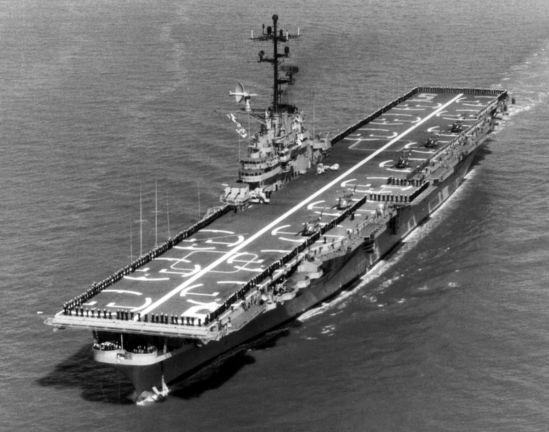 The U.S. Navy amphibious assault ship USS Princeton (LPH-5) underway, circa 1965.